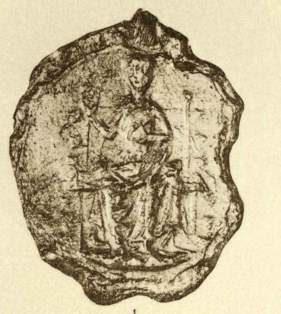 This is a scan of the historical document